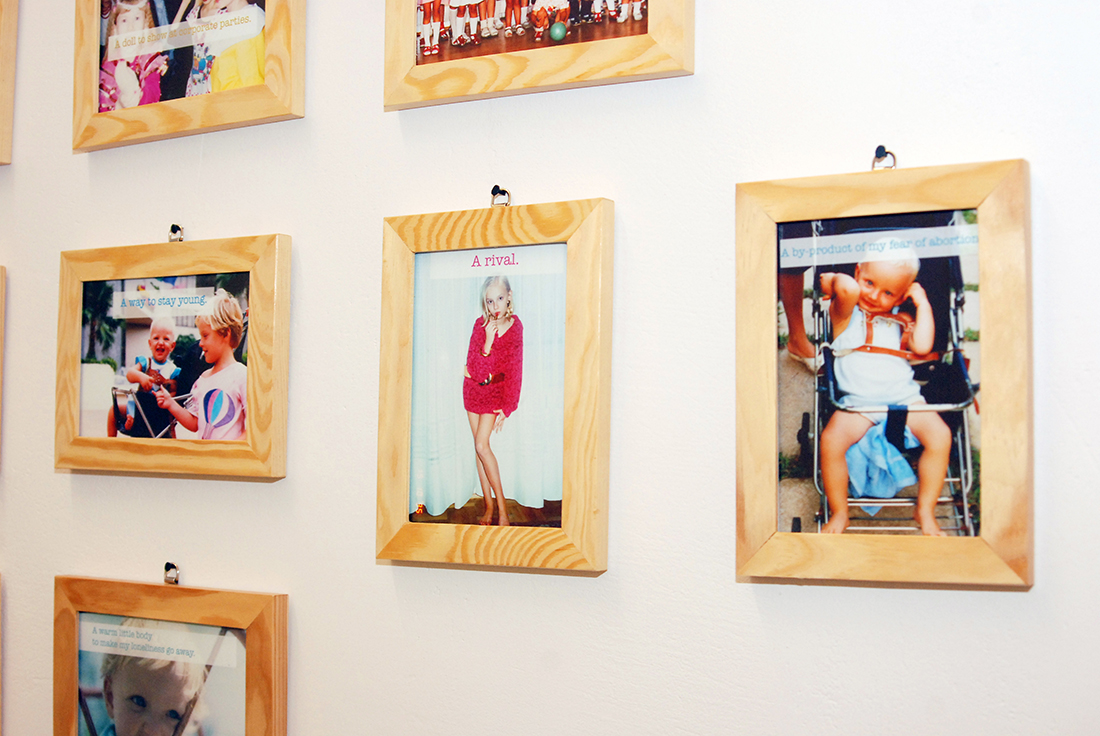 Agnes Janich, "My Mom's Diary", installation shot, Galerie Kunsthalle Exnergasse, Vienna, Austria, 2010